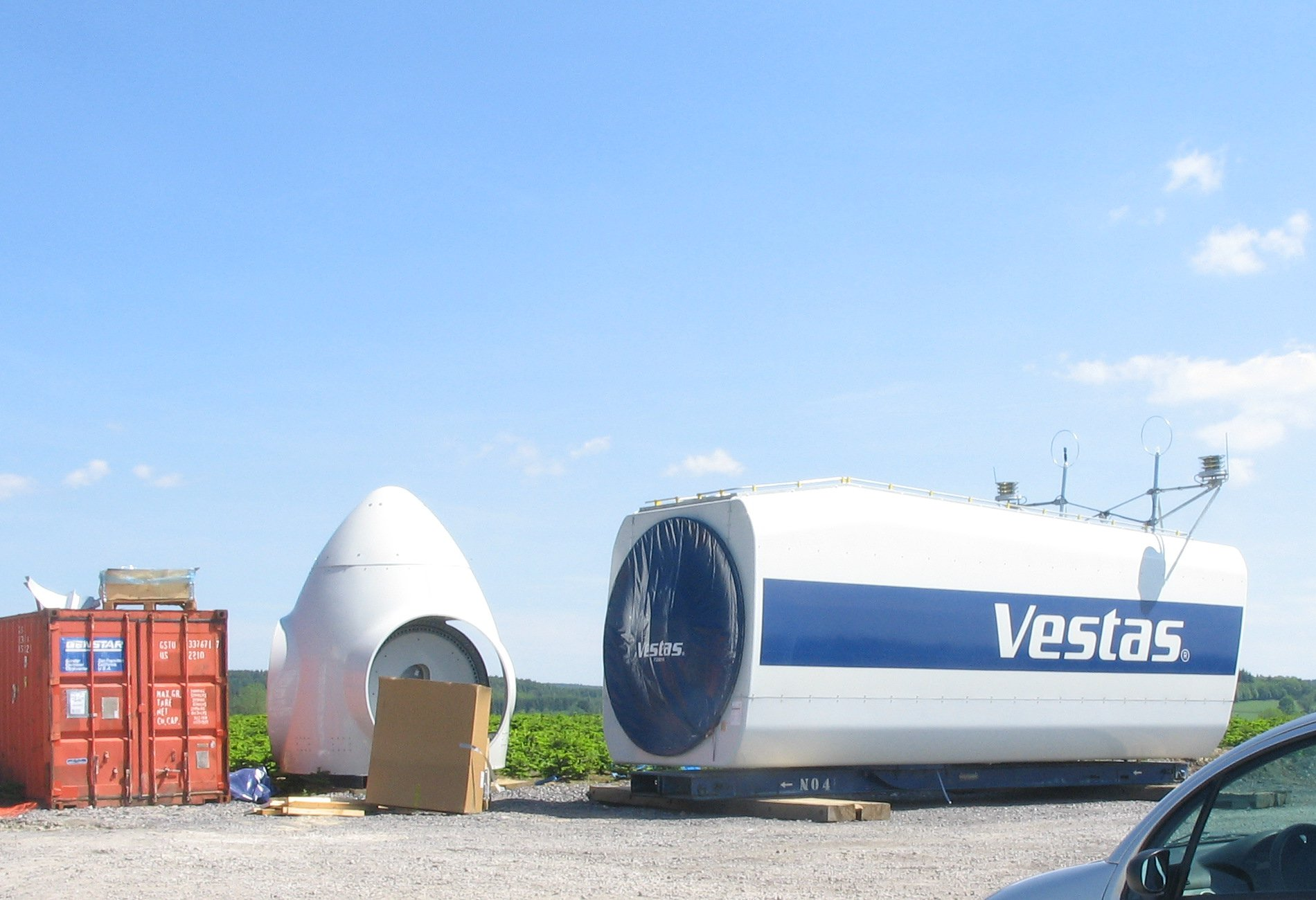 rotor cabine of windturbine of Bièvre